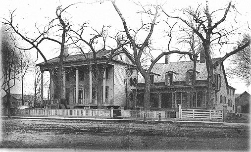 "The above photograph, taken around l882, is of the Davenport homestead, or mansion, as it was commonly referred to, on Main Street in Stamford. The homestead stood near the corner of Summer Street, and was actually comprised of two houses. The one on the right was that of Abraham Davenport which adjoins the pillared residence on the left, built by the Hon. John Davenport in 1807."